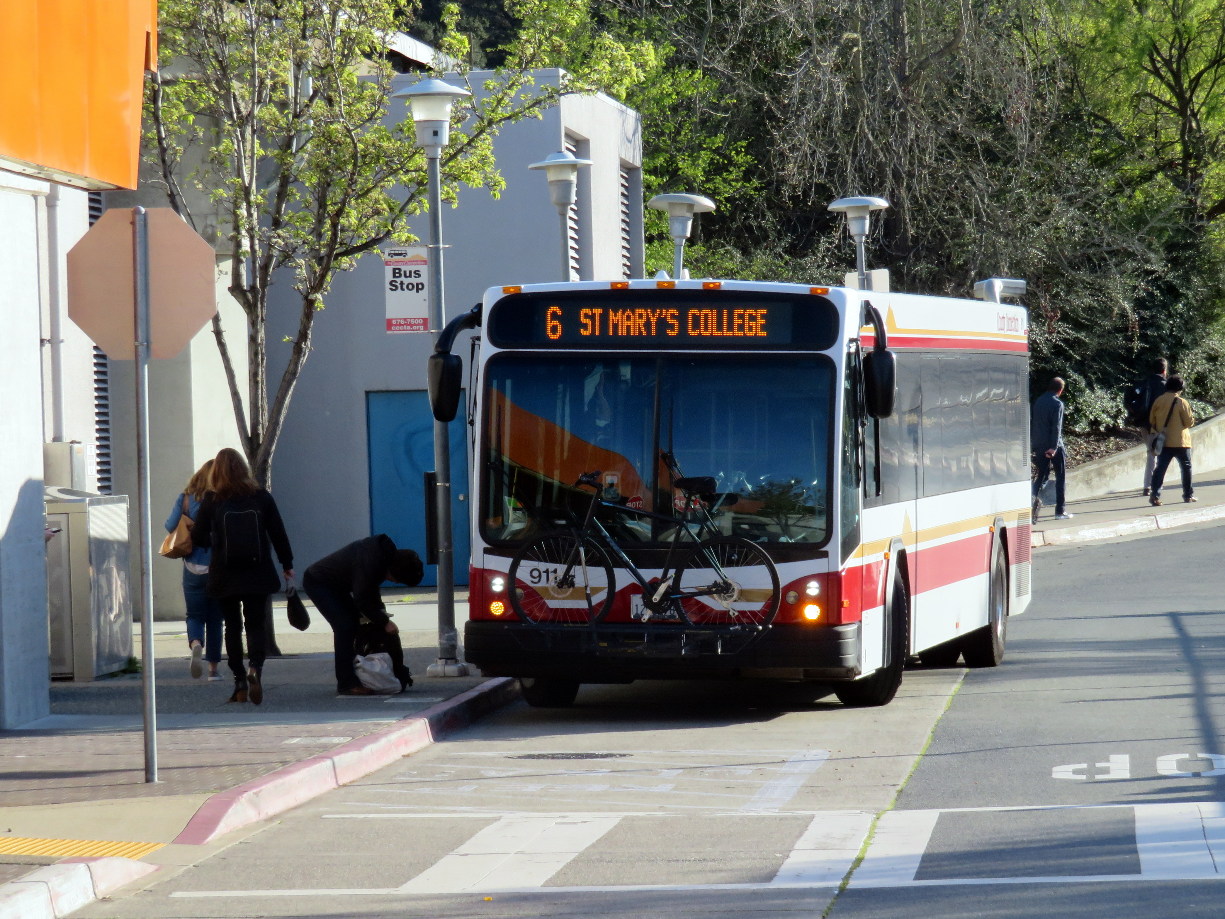 County Connection route 6 bus at Orinda station in March 2018